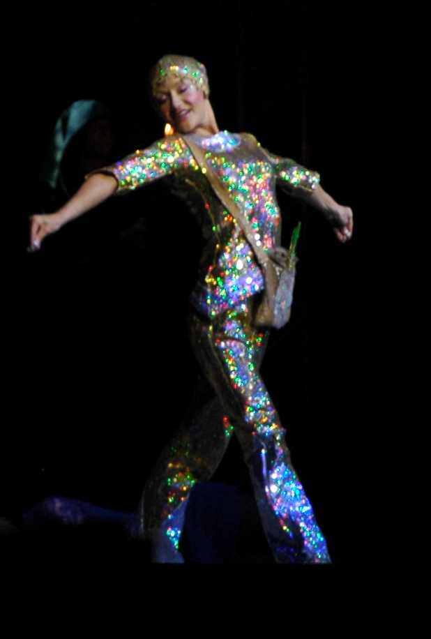 "Lord of the Dance" show of Michael Flatley, part 1 "Cry Of The Celts" with "The Spirit".